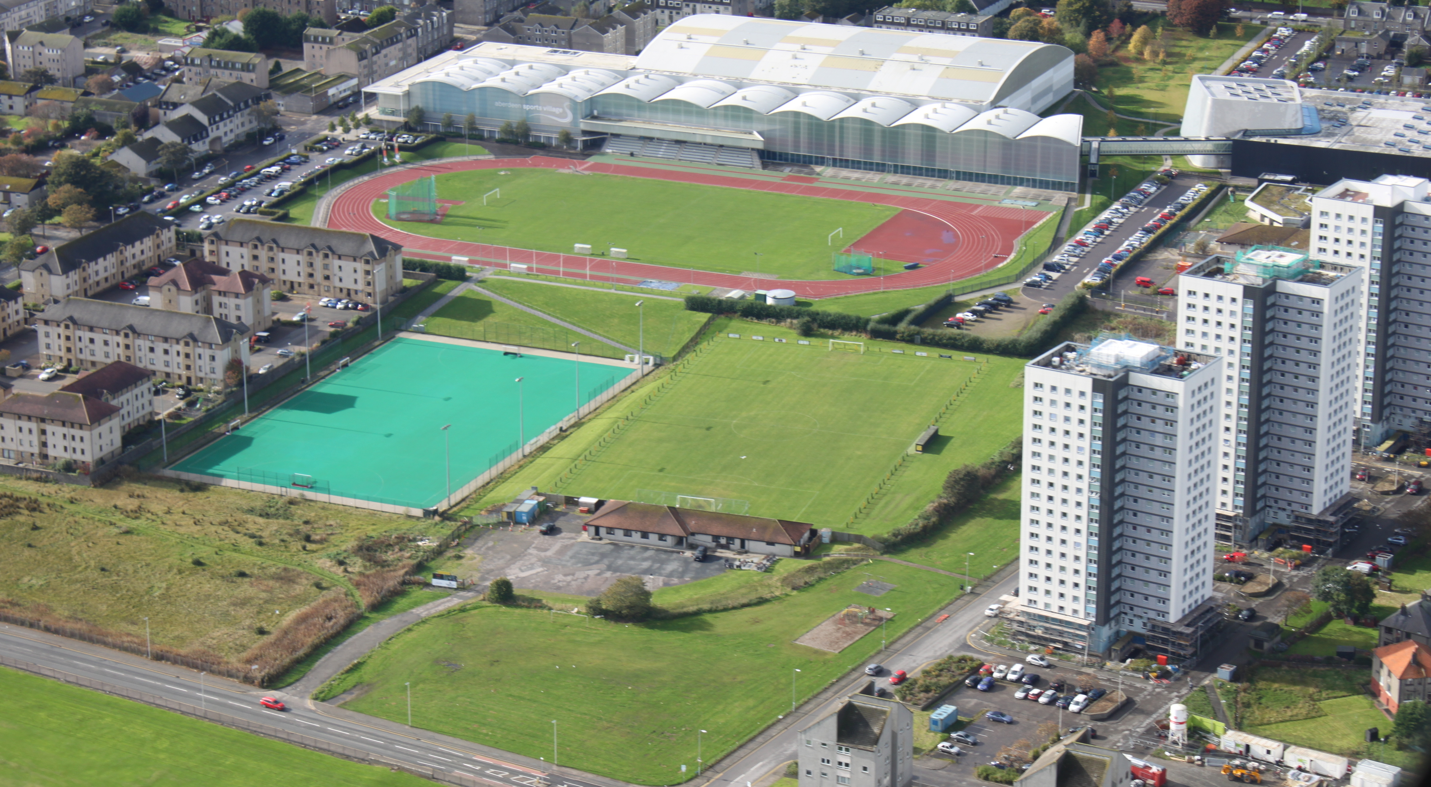 Aerial picture of ground